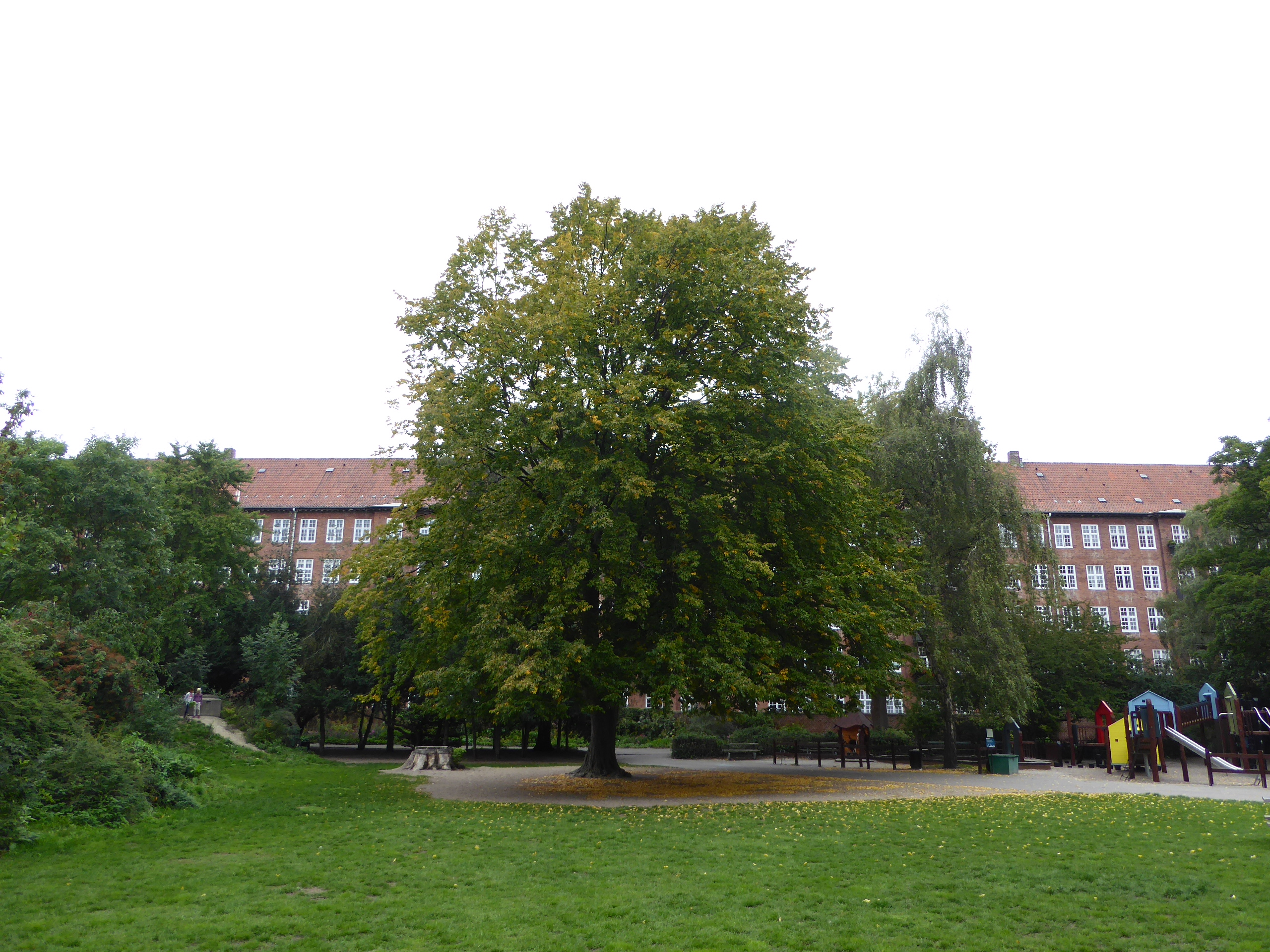 The park Classens Have in Østerbro in Copenhagen.